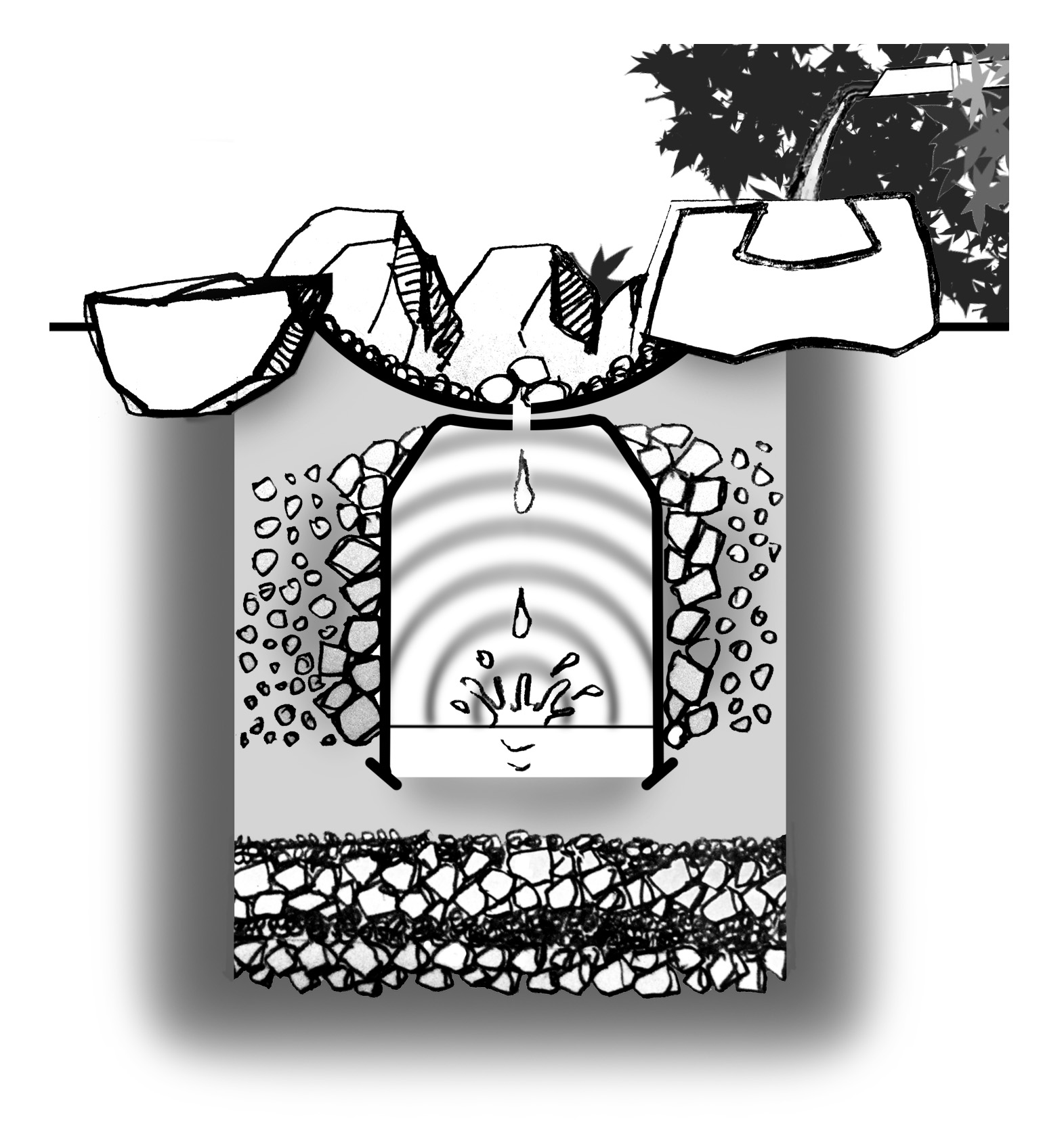 Suikinkutsu, water koto cave